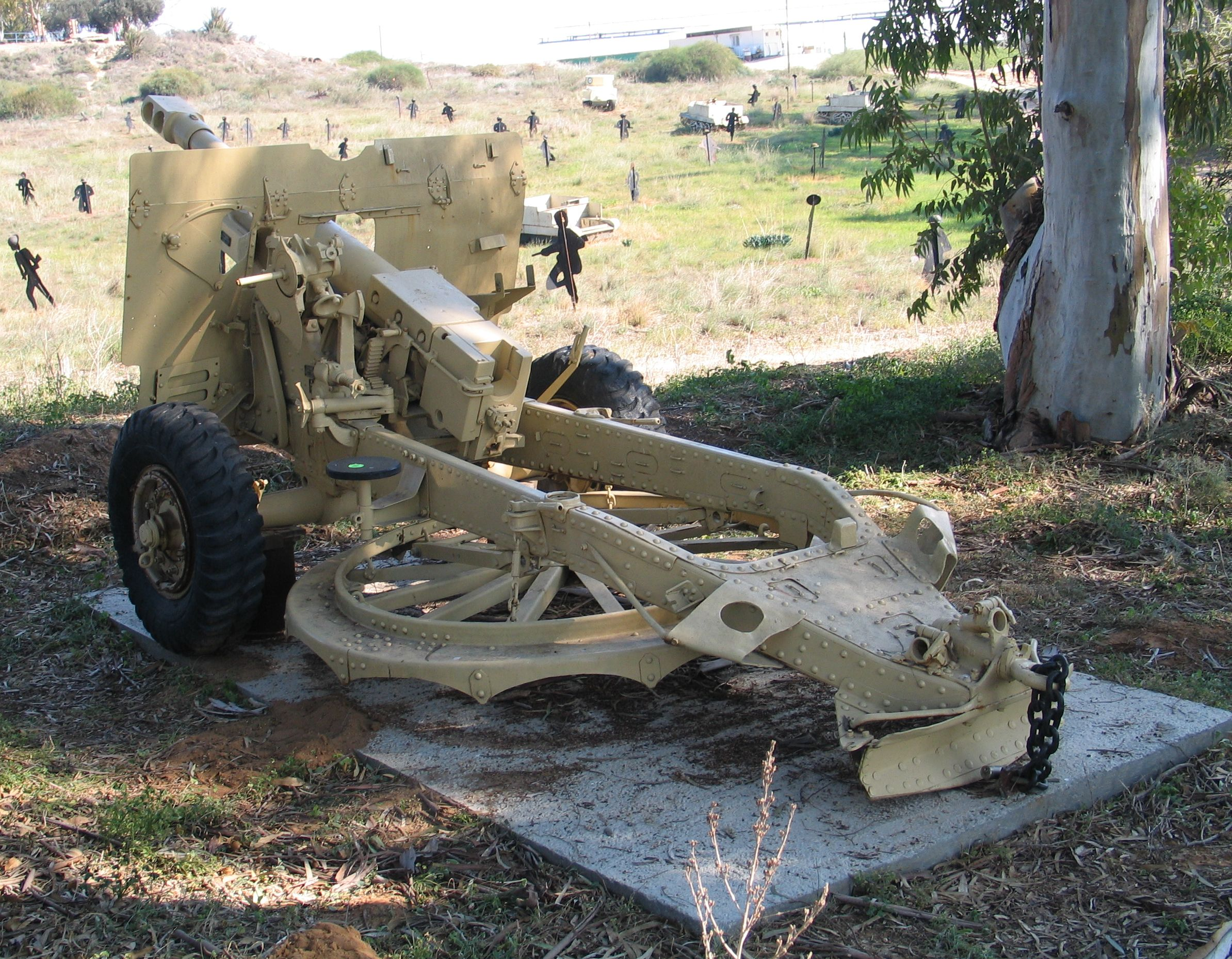 Ordnance QF 25 pounder gun-howitzer at Yad Mordechai battlefield reconstruction site.